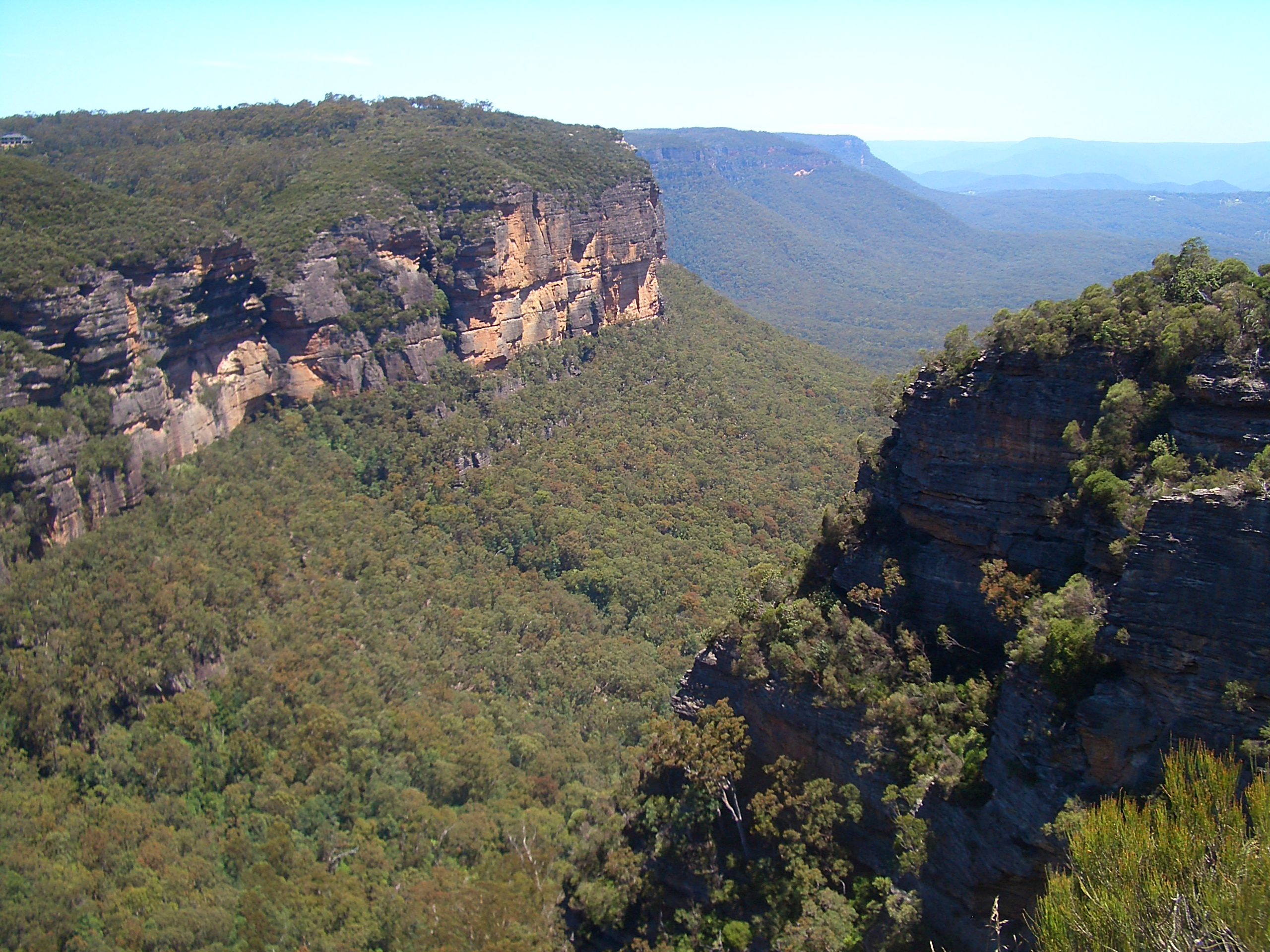 A view from Cliff View lookout in Nellie's Glenn area (less than a kilometer south of the western end of Six Foot Track, west of Katoomba). The cliff on the left is under Katoomba's west side (Peckman's Plateau), the one of the right - part of Radiata Plateau.